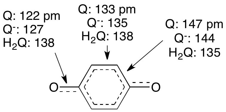 bond distances in benzoquinone, its 1e reduced derivative, and hydroquinone, taken from DOI 10.1021/ja066471o